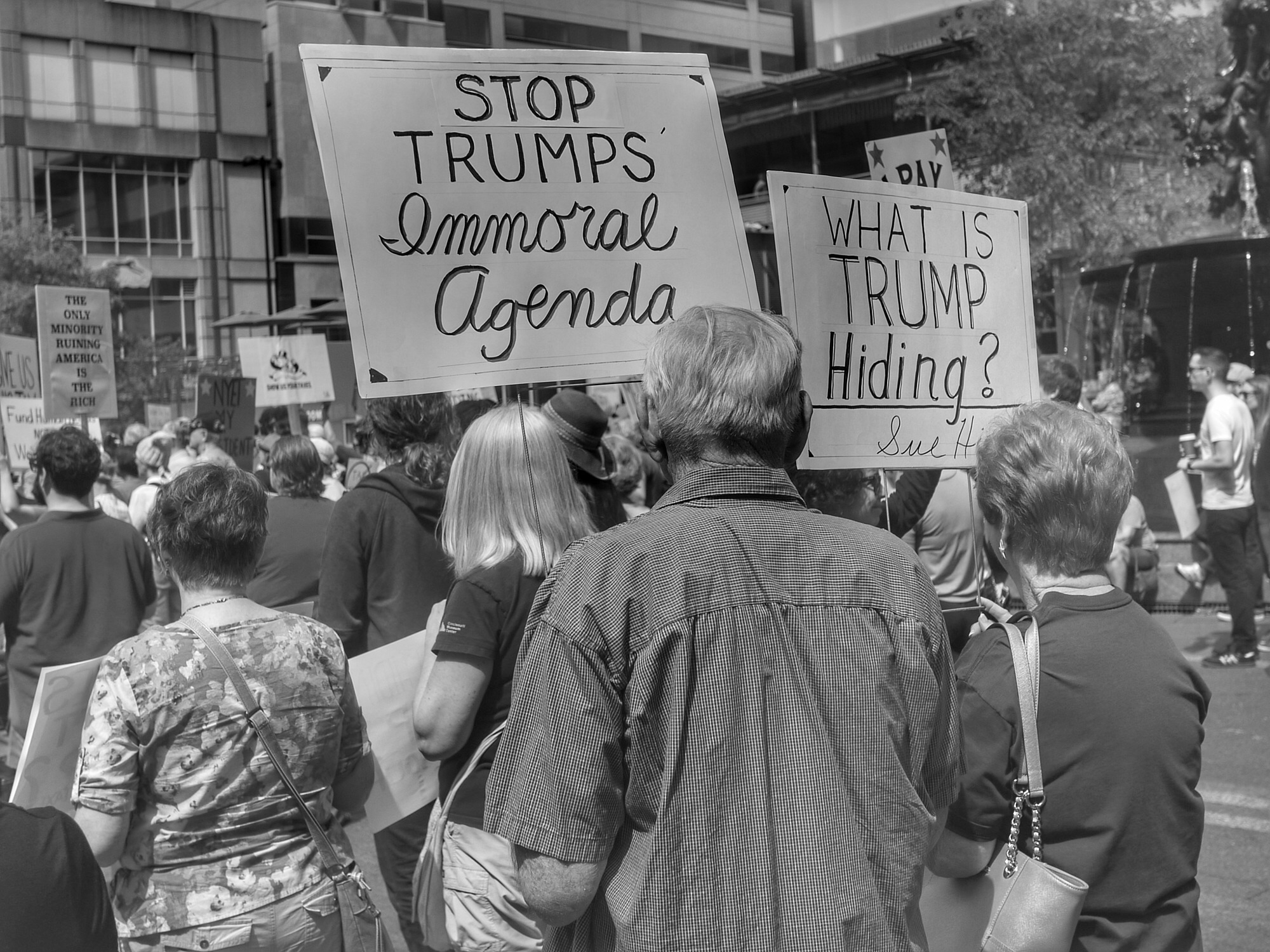 the Tax Day March